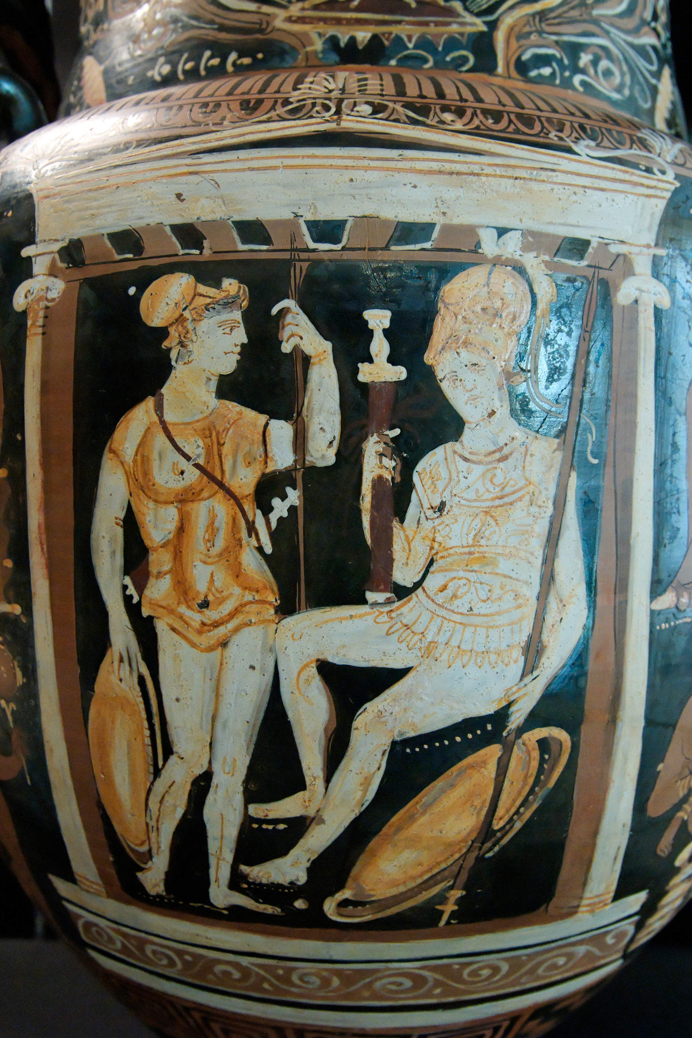 Naiskos with two soldiers. Detail of side A of a volute krater made of fired and painted clay in Apulia (Magna Graecia), by the red-figure technique. Tarento Group 7013.